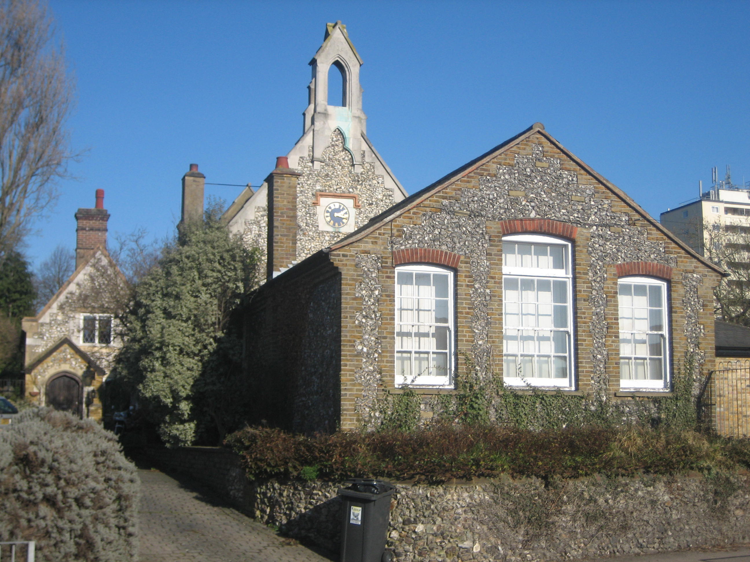 The older buildings of Nash Mill Church of England Primary School